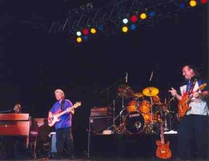 I took this photo in 2002 at a Tunica, Mississippi Booker T. & the M.G.'s concert